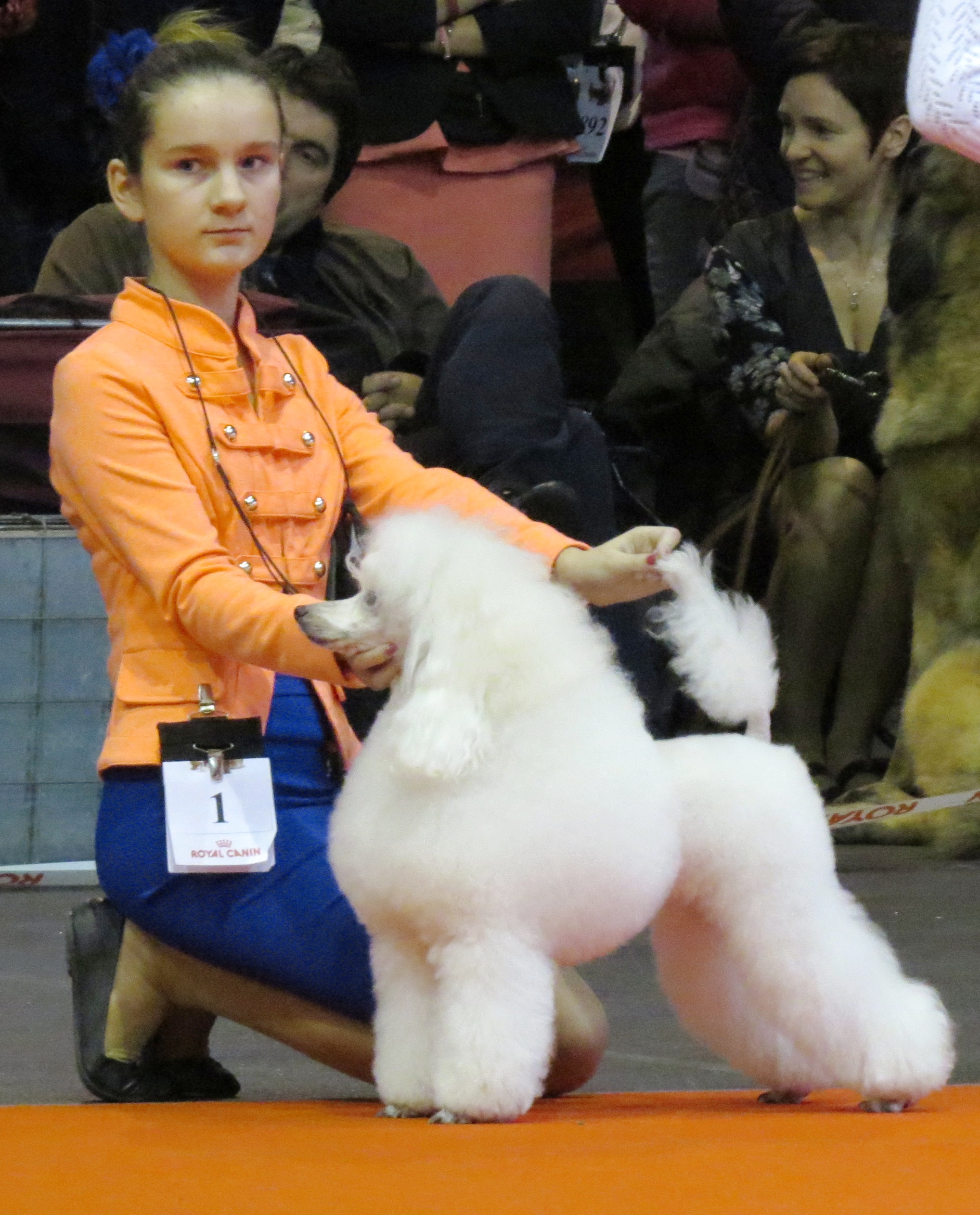 Riga, Baltic Winner 2013, 9-10 Nov